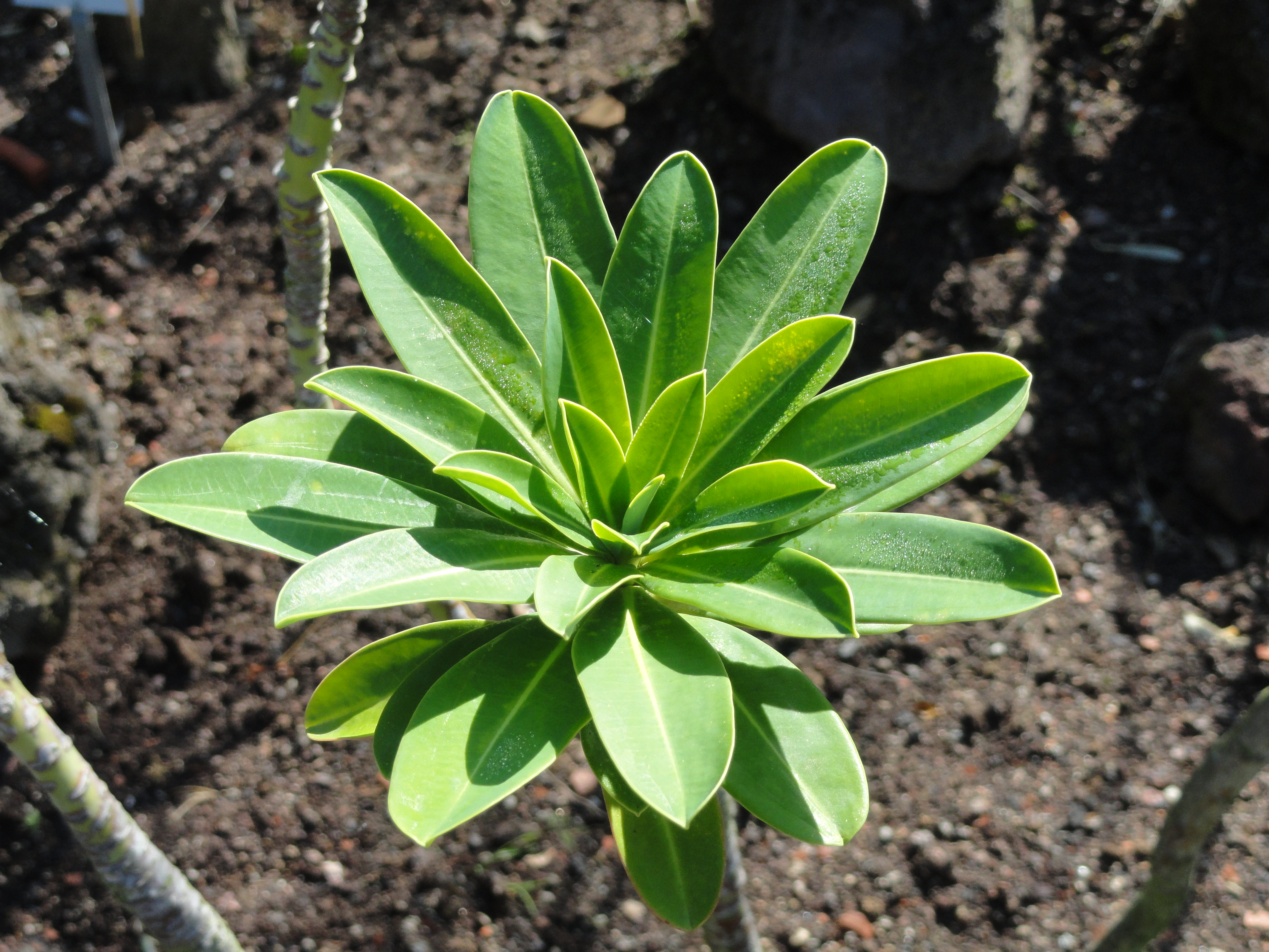 Botanical specimen in the Botanischer Garten, Frankfurt am Main, located at Siesmayerstraße 72, Frankfurt am Main, Germany.